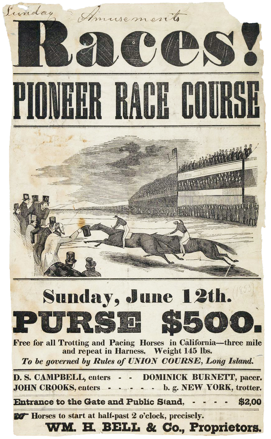 print on paper: engraving and letterpress 31 x 18.4 cm, announcement for horserace; includes image of race, crowded grandstand to right. Collection: Robert B. Honeyman, Jr. Collection of Early Californian and Western American Pictorial Material, Contributing Institution: UC Berkeley, Bancroft Library